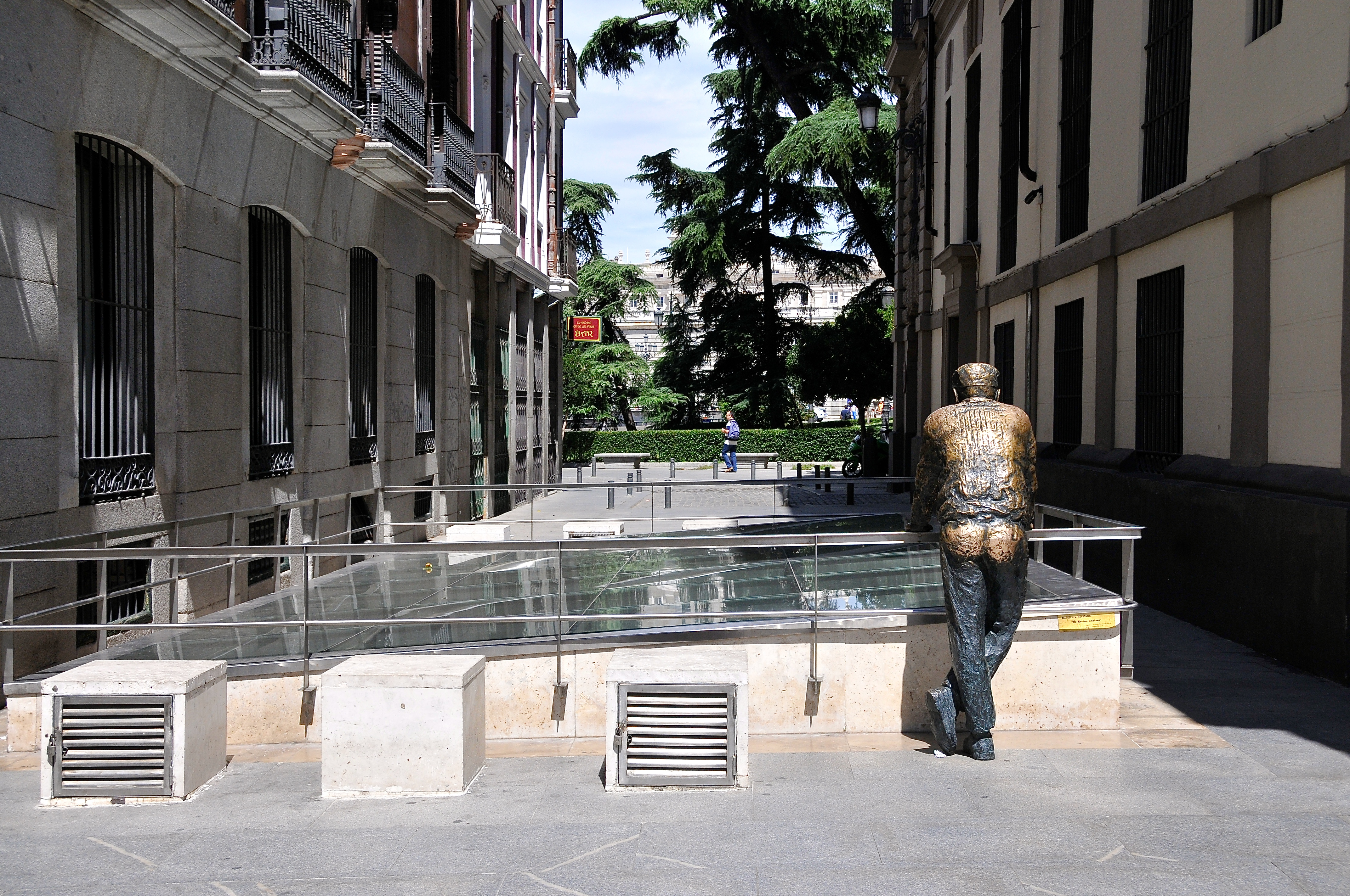 'El Vecino Curioso' van de Spaanse kunstenaar Salvador Fernandez Oliva. Model: Carlos Mclean